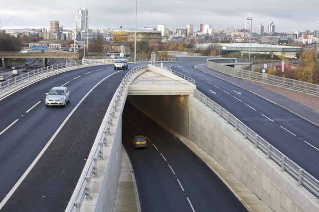 Moor Road Underpass The underpass lies at the heart of the junction between the Leeds Inner Ring Road A61 and the M621 Motorway J4. The road junction was built in 2007/08 but 1:50,000 OS sheet has yet to be updated. The southbound M621 slip road passes over the northbound carriageway of Moor Road on the highly skewed tunnel, whose roof spans square between abutments - hence the triangular area of exposed concrete.